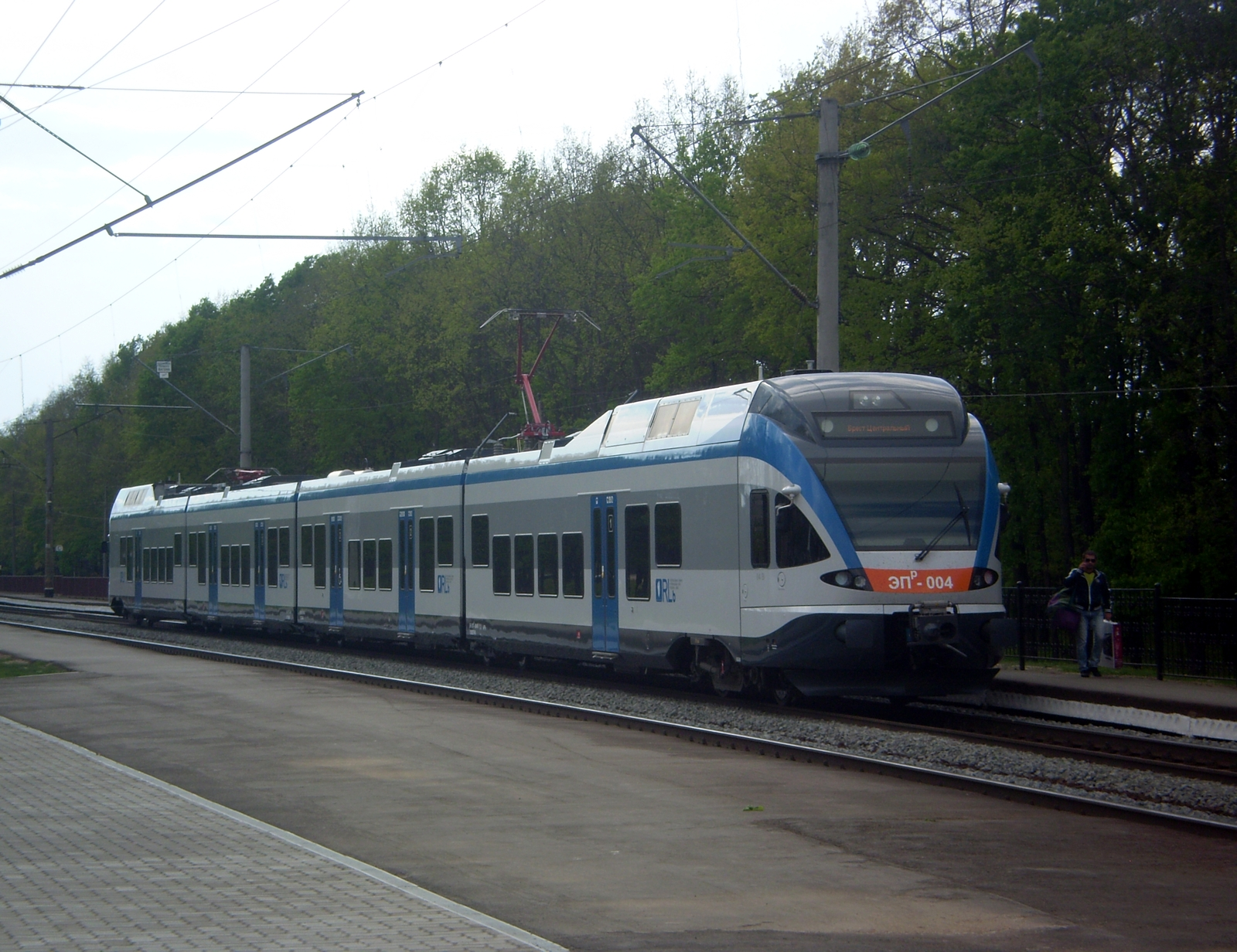 Stadler FLIRT in Biaroza, Belarus.